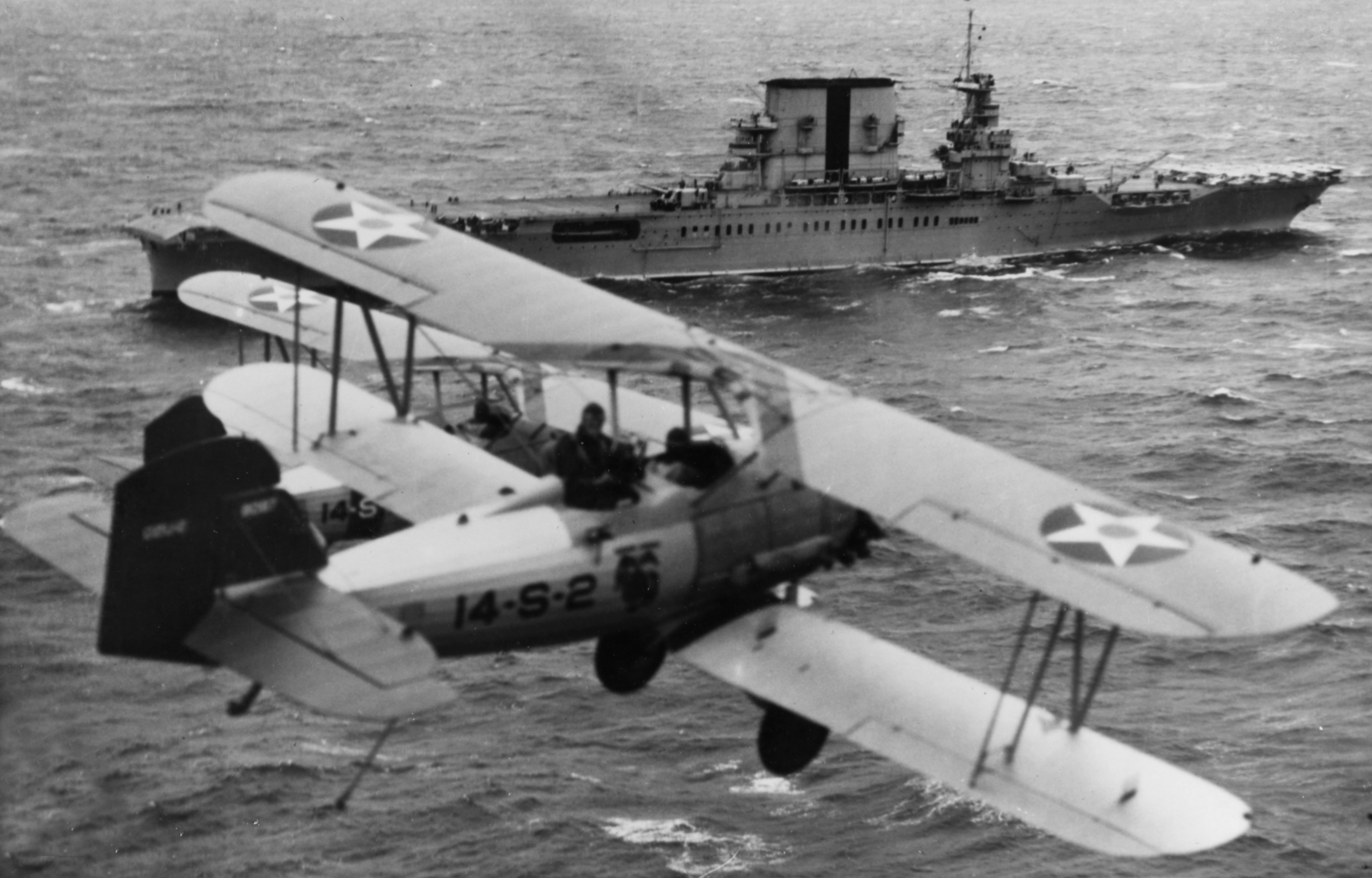 Vought O2U-2 Corsair aircraft of Marine Scouting Squadron 14 (VS-14M) fly past the U.S. Navy aircraft carrier USS Saratoga (CV-3) while preparing to land on board, circa 1930. Note the U.S. Marine Corps insignia painted under the after cockpit of the closest aircraft.